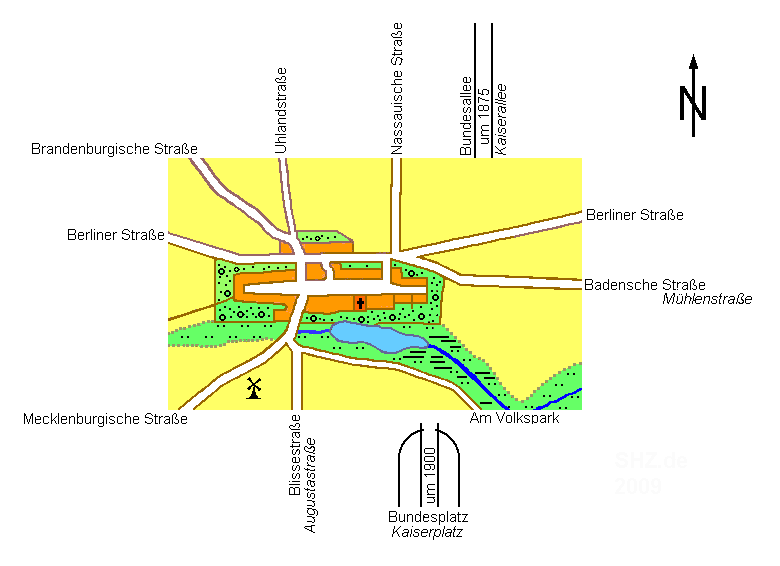 Wilmersdorf, since 1920 part of Greater Berlin, in the first half of 19th century. Schematic map: coloured inner region. b/w outer part: current street names, italic around 1900